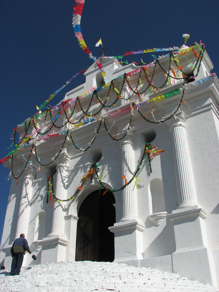 Church of Santo Tomás